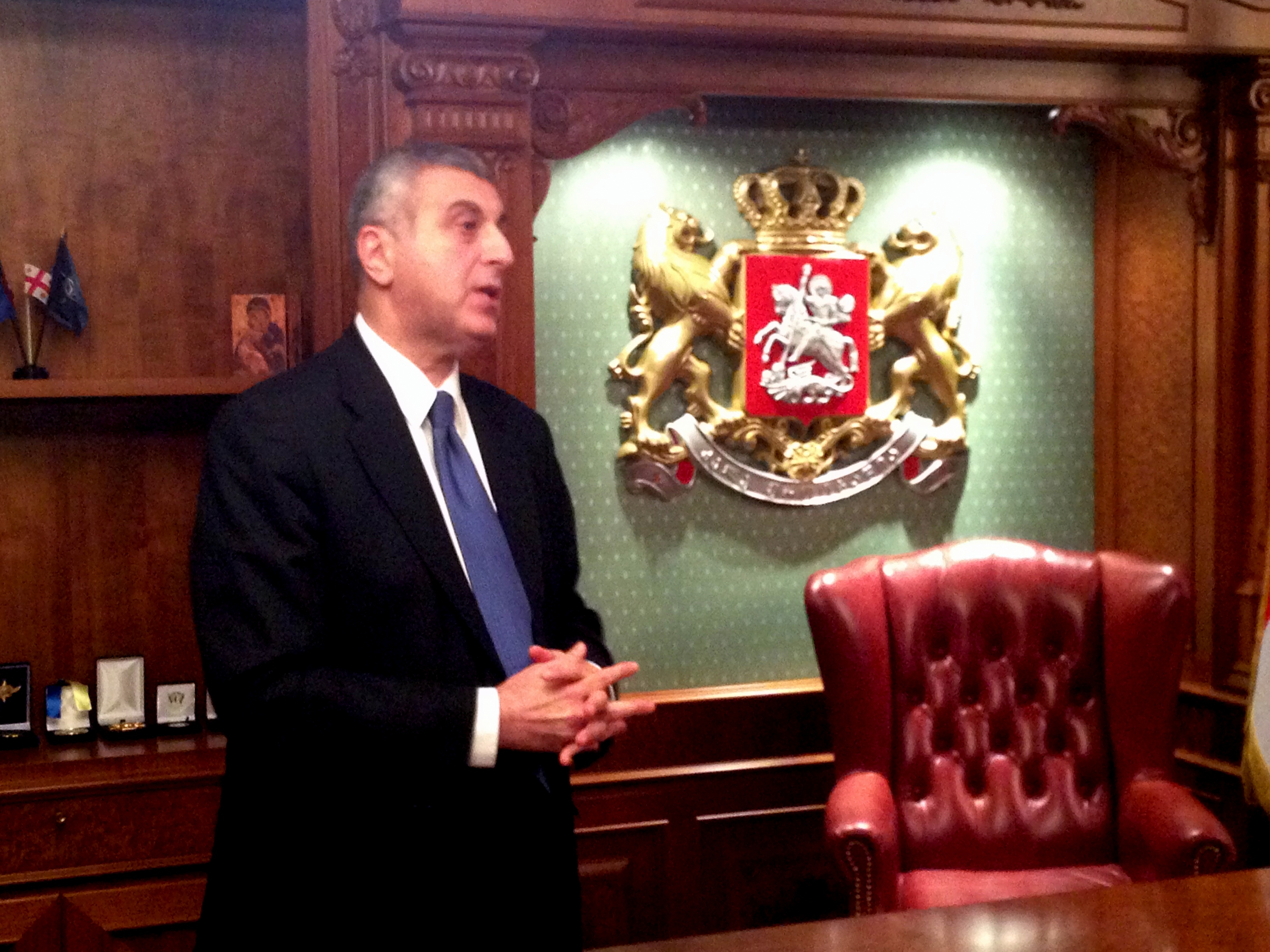 Ambassador Mikheil Ukleba in his office in the embassy of Georgia in Kiev